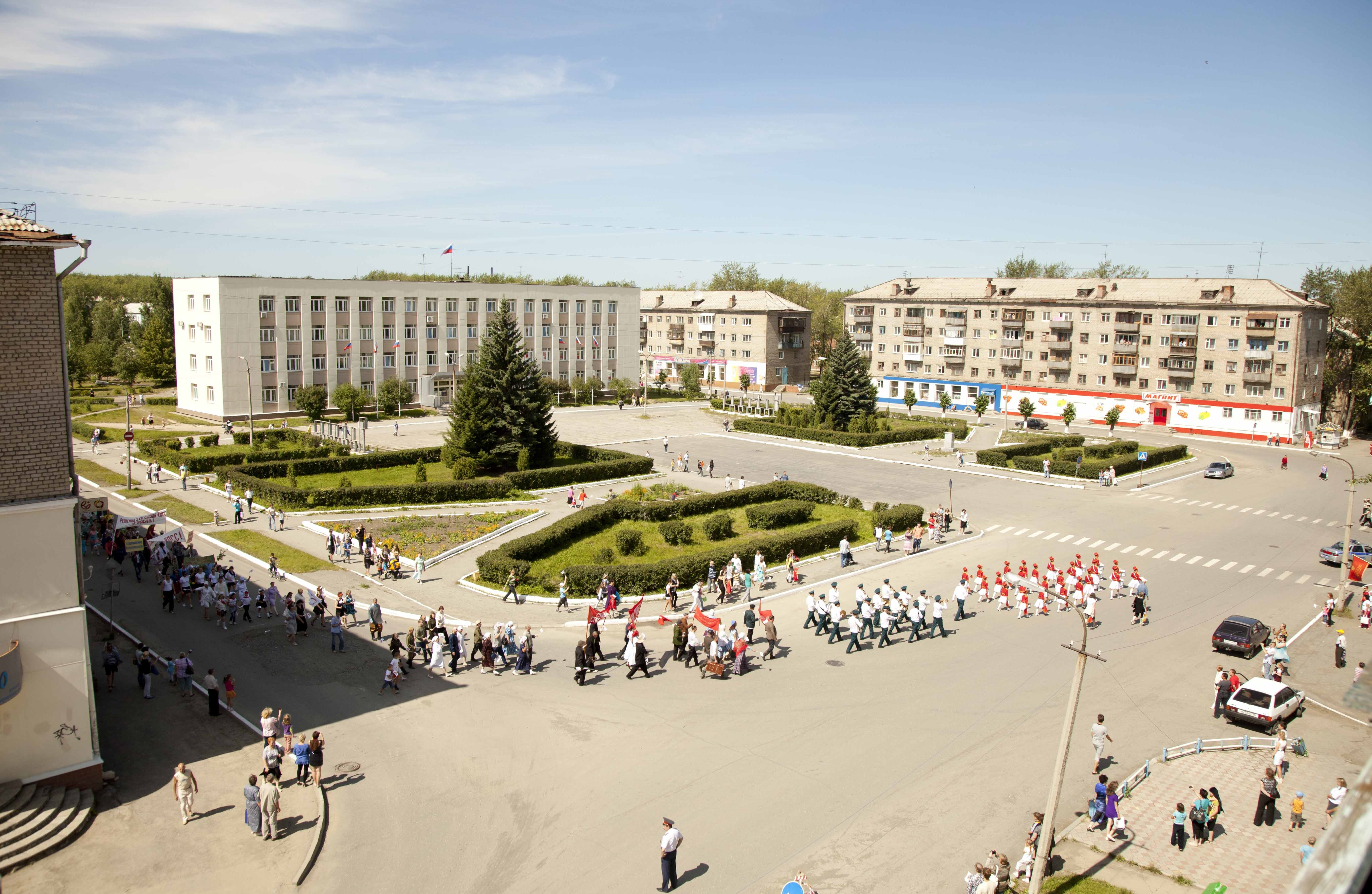 Square in town of Krasnouralsk, Sverdlovsk Oblast